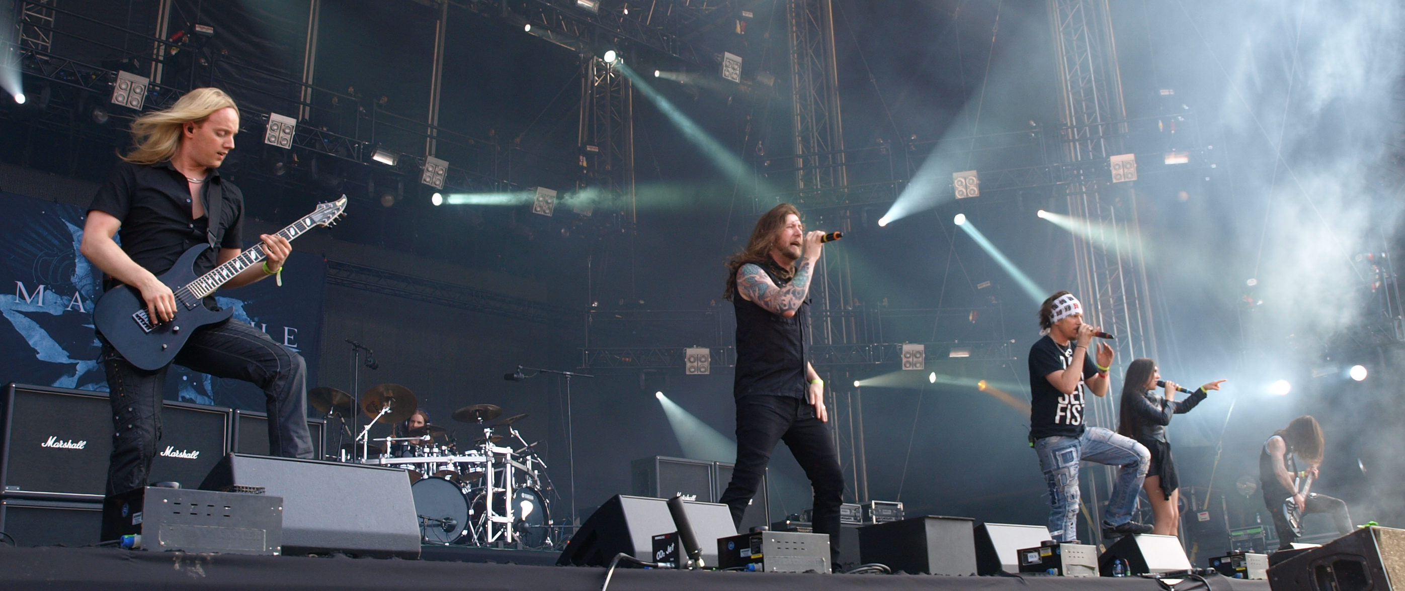 Swedish band Amaranthe at Tuska Open Air 2013